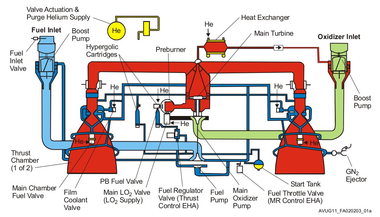 schematic of RD-180 rocket engine Helium Low-pressure liquid oxygen Low-pressure liquid fuel High-pressure liquid fuel High-pressure gaseous oxygen and preburner combustion products EHA Electro-hydraulic actuator MR control EHA Mix-ratio control EHA PB fuel valve Pre-burner fuel valve